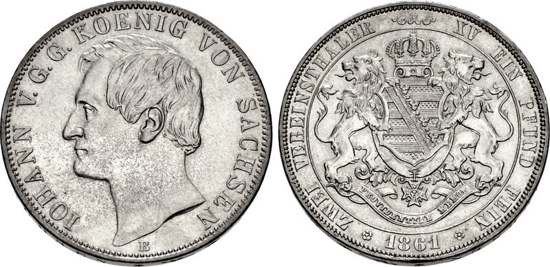 GERMANY, Sachsen (Königreich). Johann. 1854-1873. AR Doppeltaler (42mm, 37.14 g, 12h). Dresden mint. Dated 1861. Bare head left; B below / Crowned coat-of-arms, with leonine supporters. AKS 127; KM 1215; Davenport 894. Near EF, a few marks on the obverse, scratch.